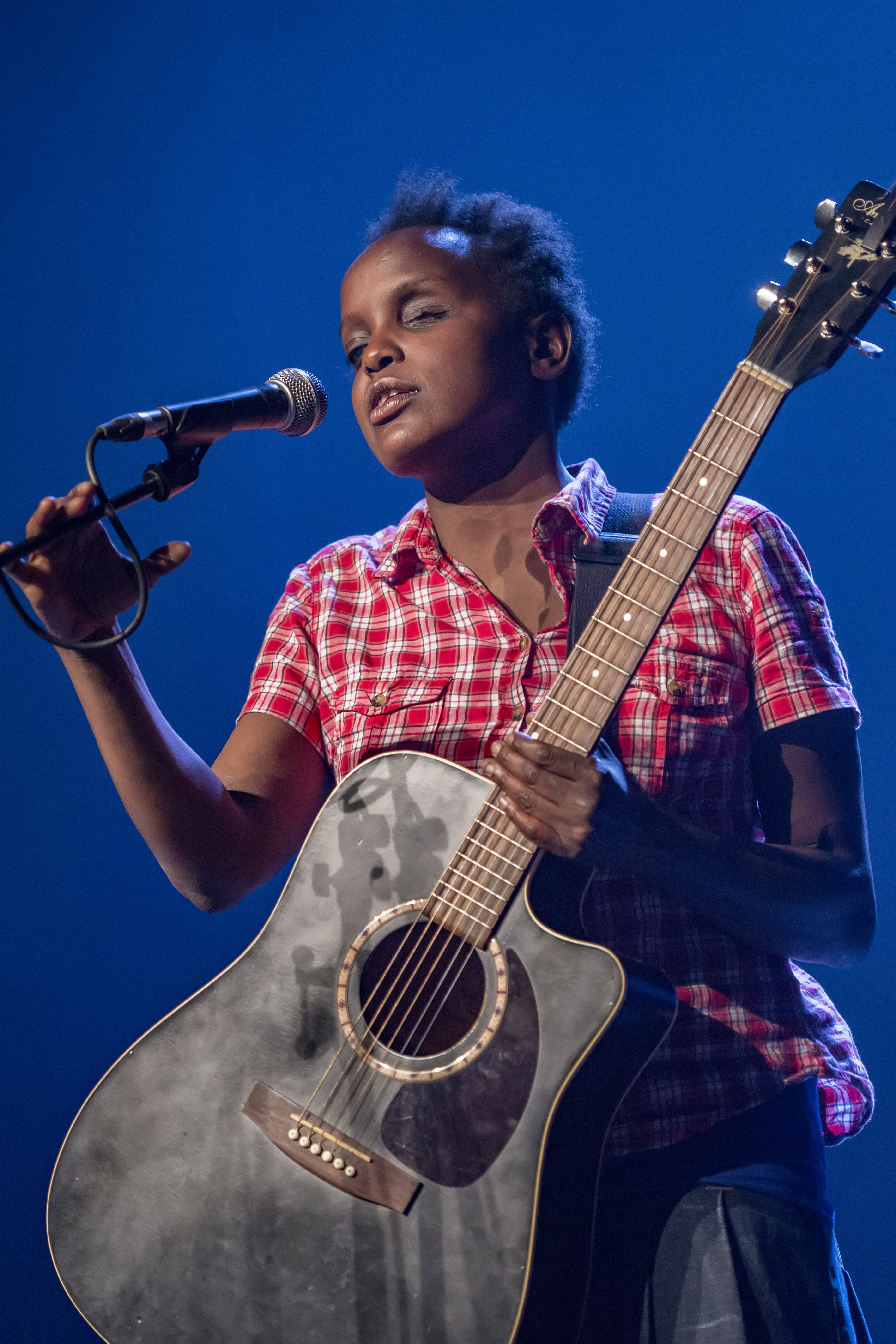 Lies Lefever